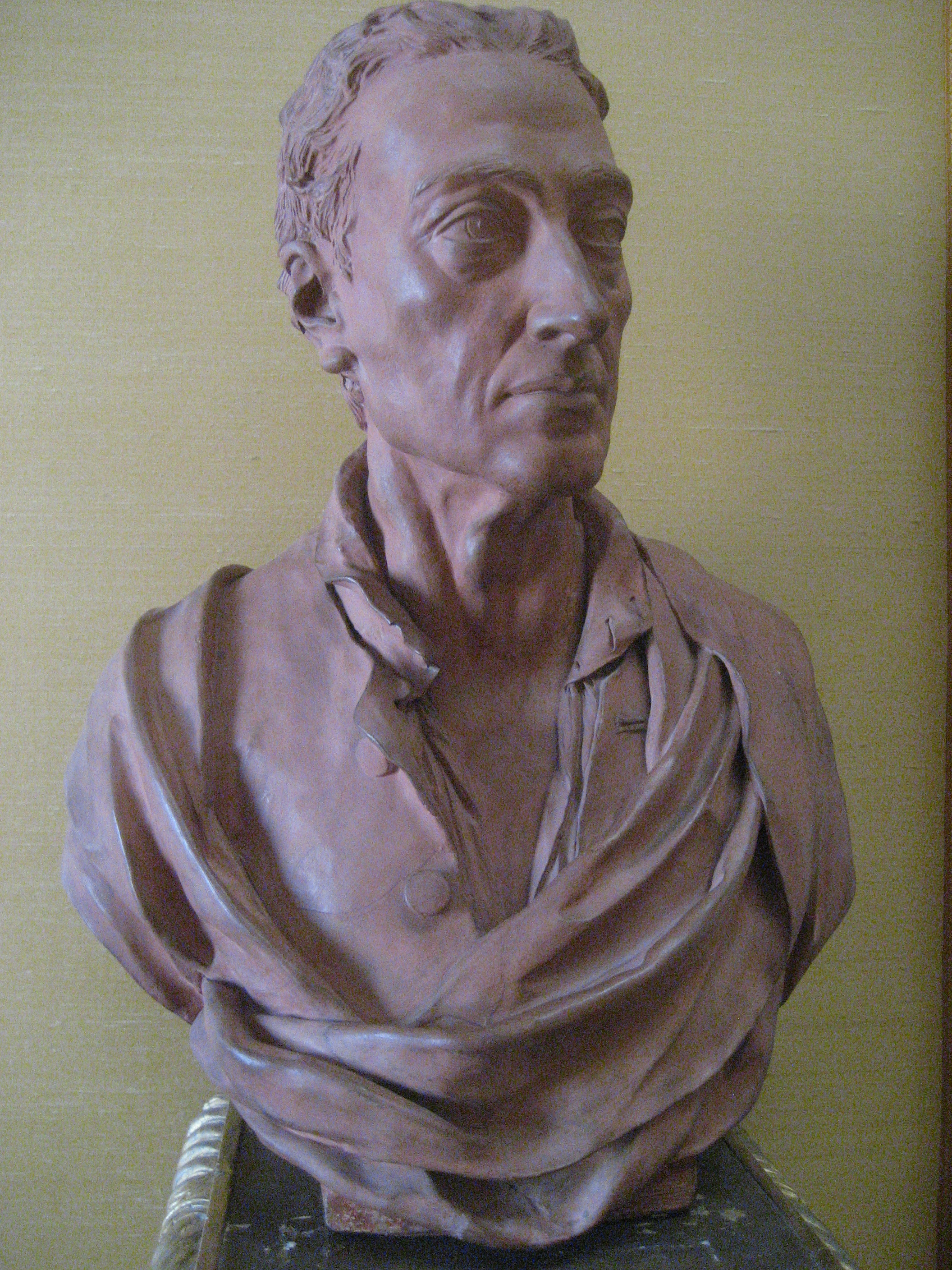 Alexander Pope. Bust at the Fitzwilliam Museum in Cambridge, England (UK). Sculptor John Rysbrack.